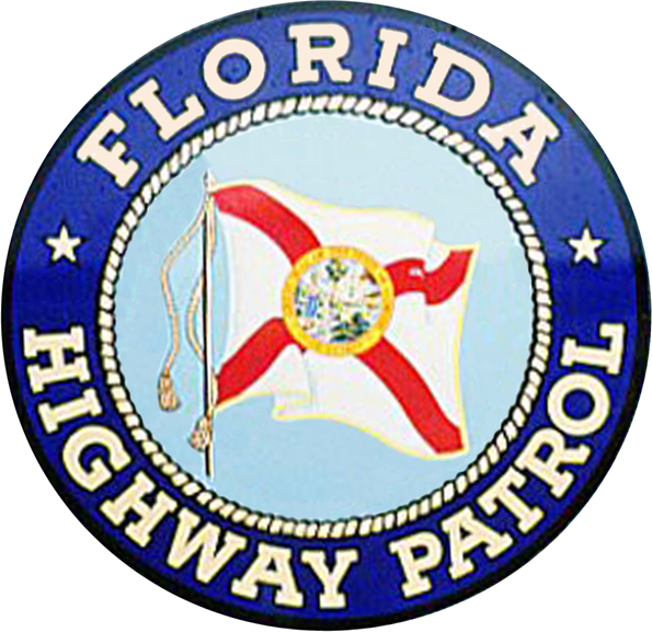 Seal of the Florida Highway Patrol